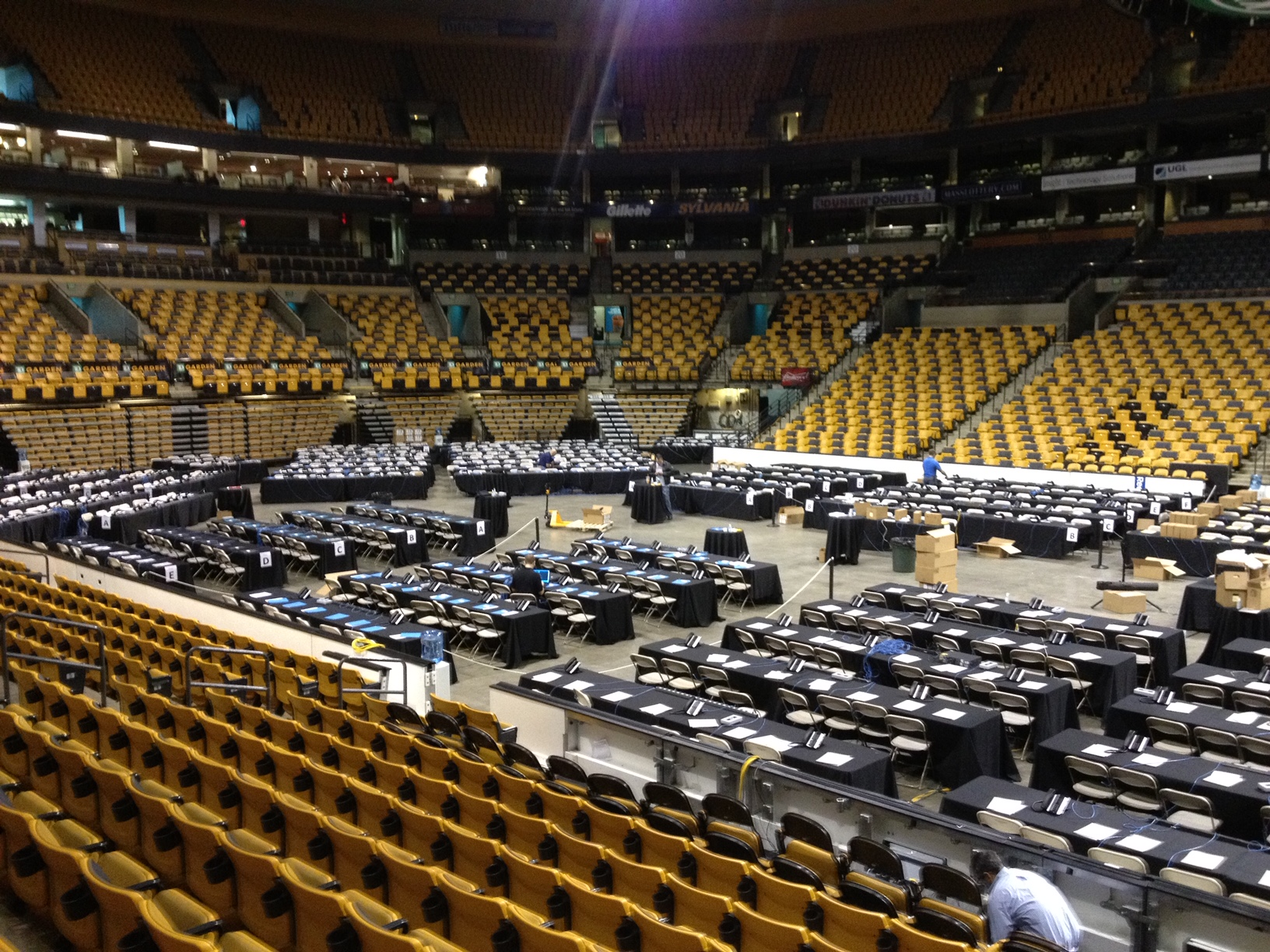 Picture of the floor of TD Garden the day of the 2012 election before Romney campaign volunteers arrived.